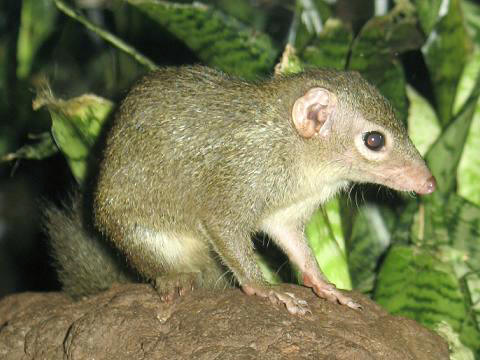 Description: Location: Bronx Zoo, New York